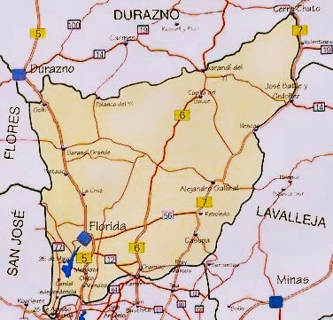 Map of the Department of Florida in Uruguay, South America.